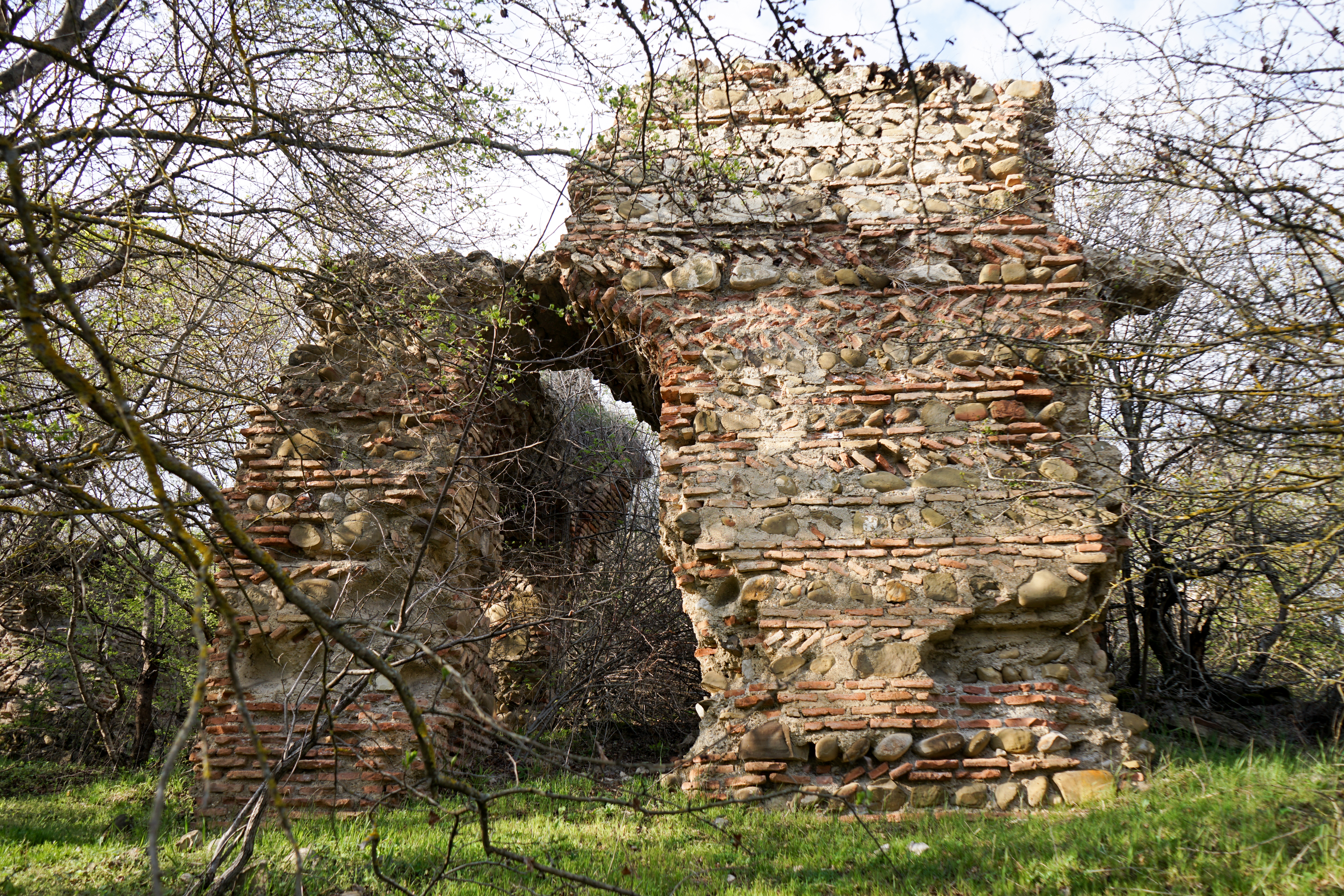 Ruins of Zemo Kodistskaro Palace, Dusheti Municipality, Georgia